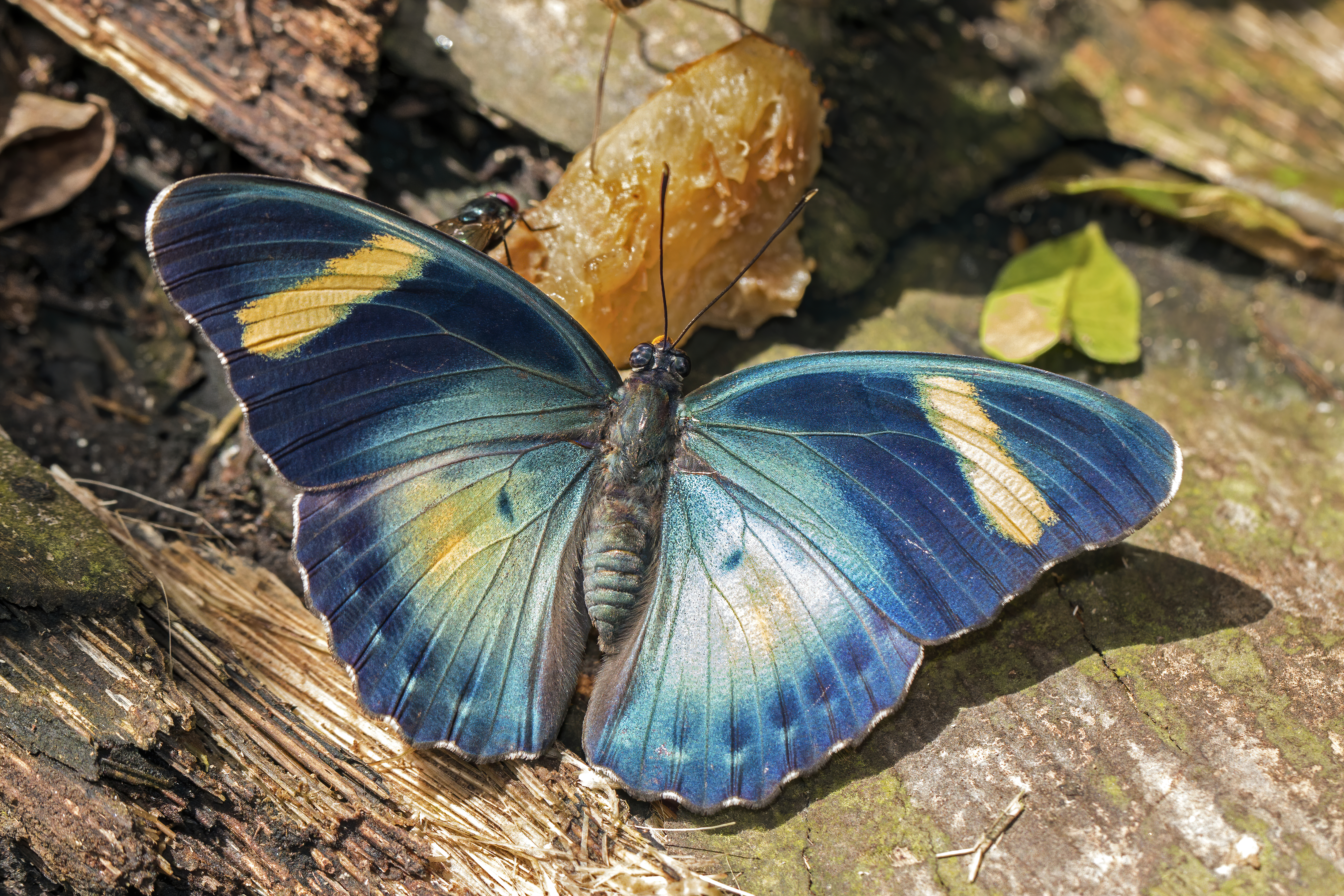 Common ceres forester (Euphaedra phaethusa phaethusa) male, Kakum National Park, Ghana